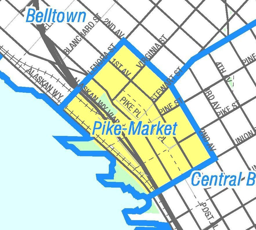 Map of Seattle's downtown Pike-Market neighborhood (around Pike Place Market). Like the other maps from the Seattle City Clerk's Neighborhood Map Atlas, this is not an official map; in particular, borders are not official. Disclaimer: The Seattle Neighborhood Atlas, which the Seattle Clerk's Office has placed in the public domain (as confirmed by OTRS ticket 2008033110016048) contains some general commentary on the maps, "About Maps", which should typically be linked as an accompaniment to these maps to (in their words) "minimize the numerous 'complaints' or comments by users who feel it necessary to point out how the Clerk's Office is 'wrong' about a certain section of town." In particular, "About Maps" says that the atlas "is designed for subject indexing of legislation, photographs, and other documents in the City Clerk's Office and Seattle Municipal Archives" and "is not designed or intended as an 'official' City of Seattle neighborhood map. There are many different ideas of what neighborhood districts exist in Seattle and what their names are…"